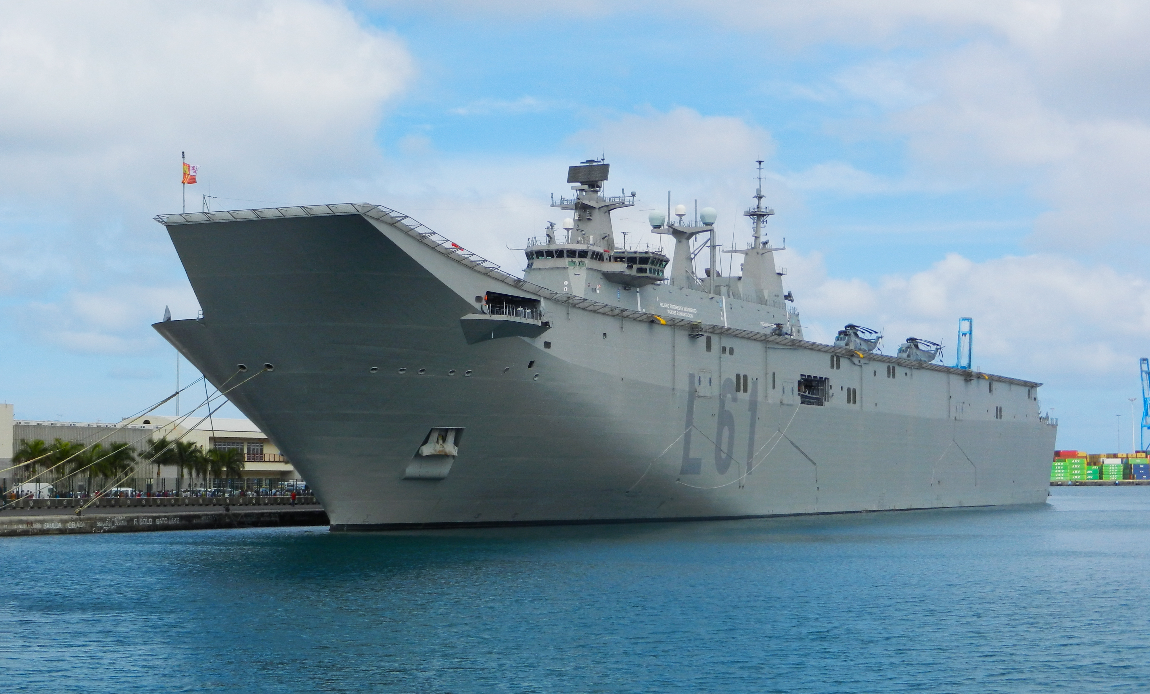 Juan Carlos I (L-61)